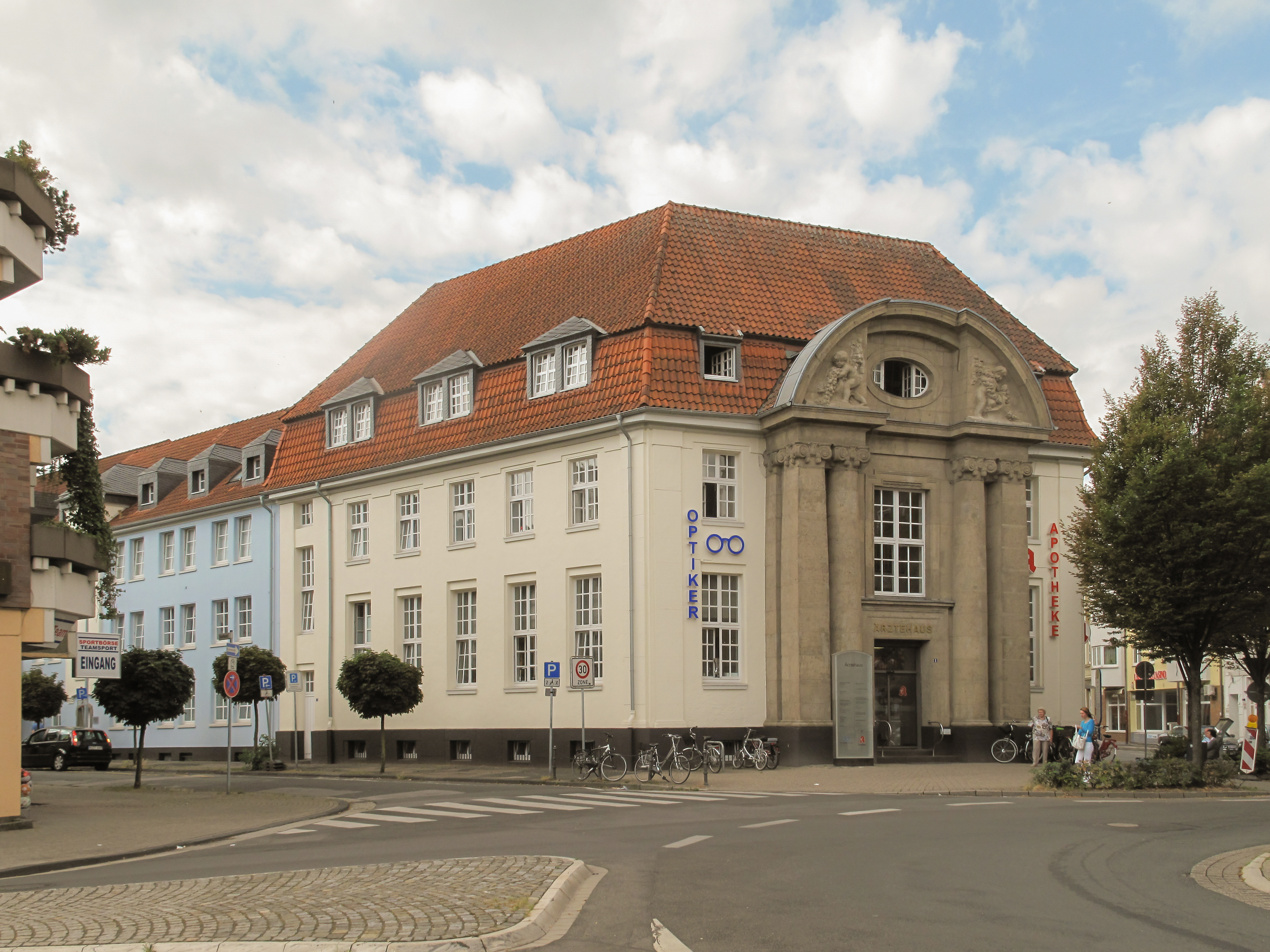 Moers, monumental house: das Ärztehaus